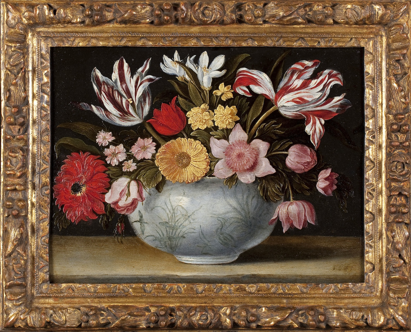 Flowers in a vase